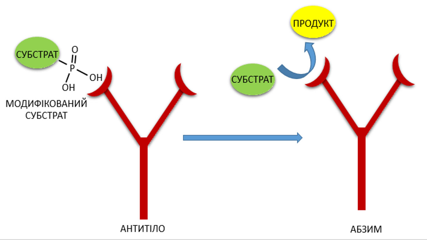 Функціонування абзимів метод фосфорного залишку